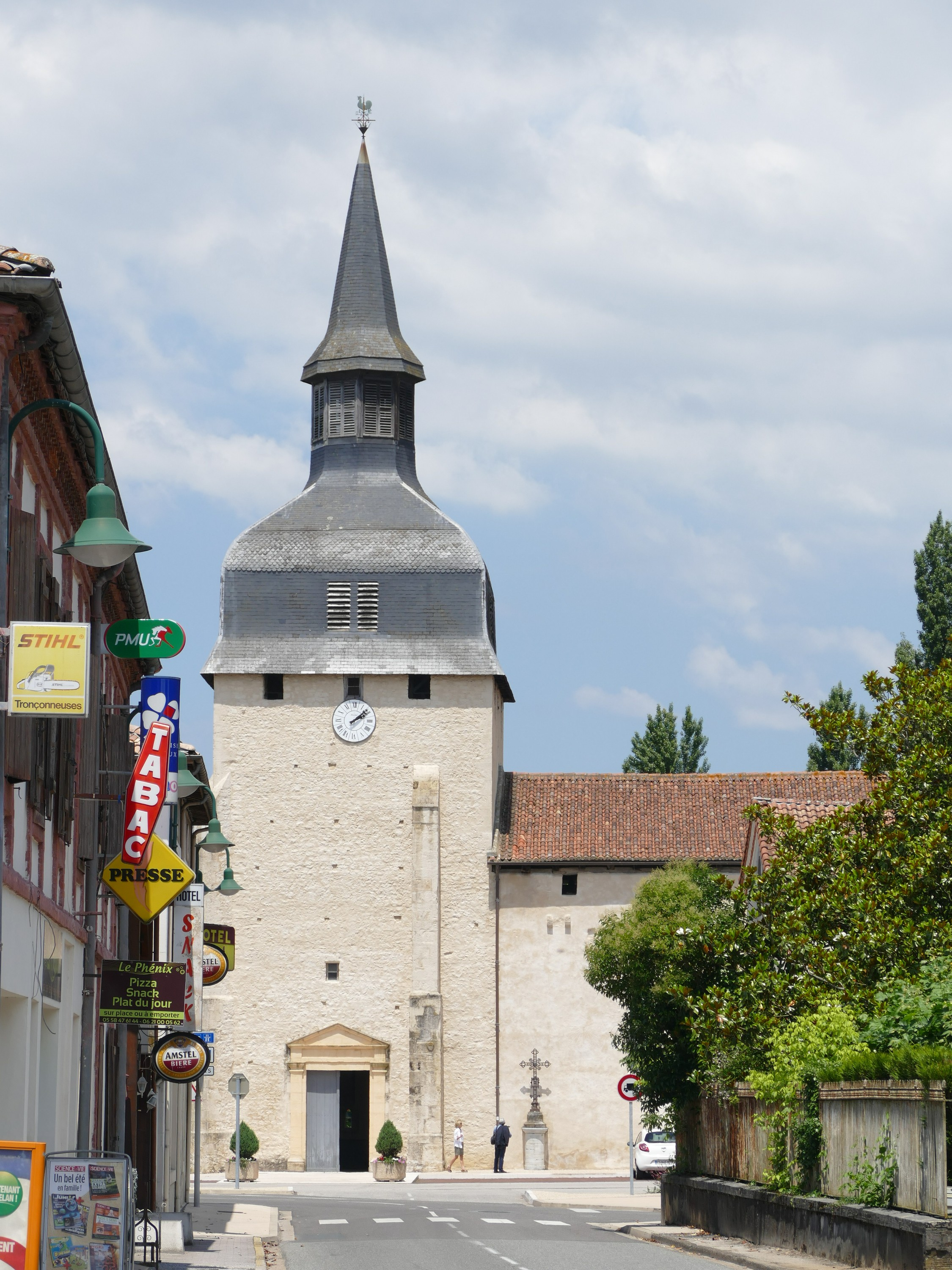 Our Lady's church in Magescq (Landes, Aquitaine, France).